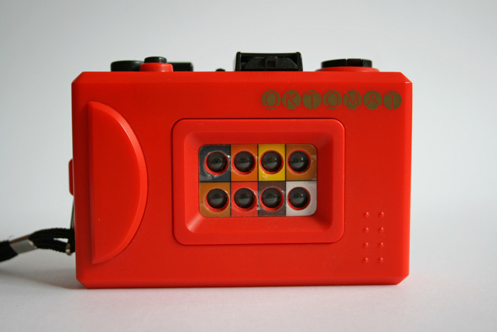 Oktomat Photo Camera